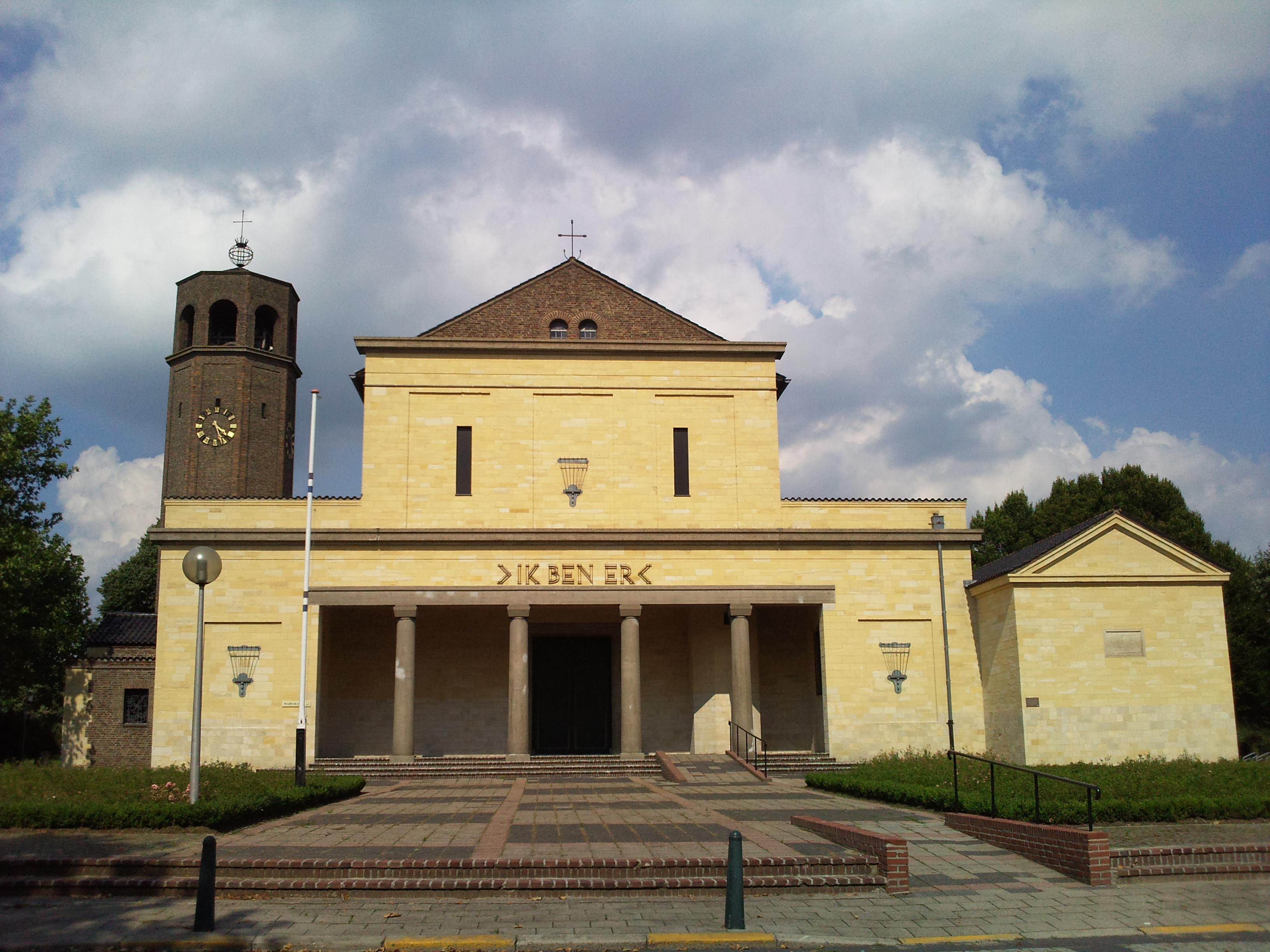 Church of Gennep after renovation, 2010